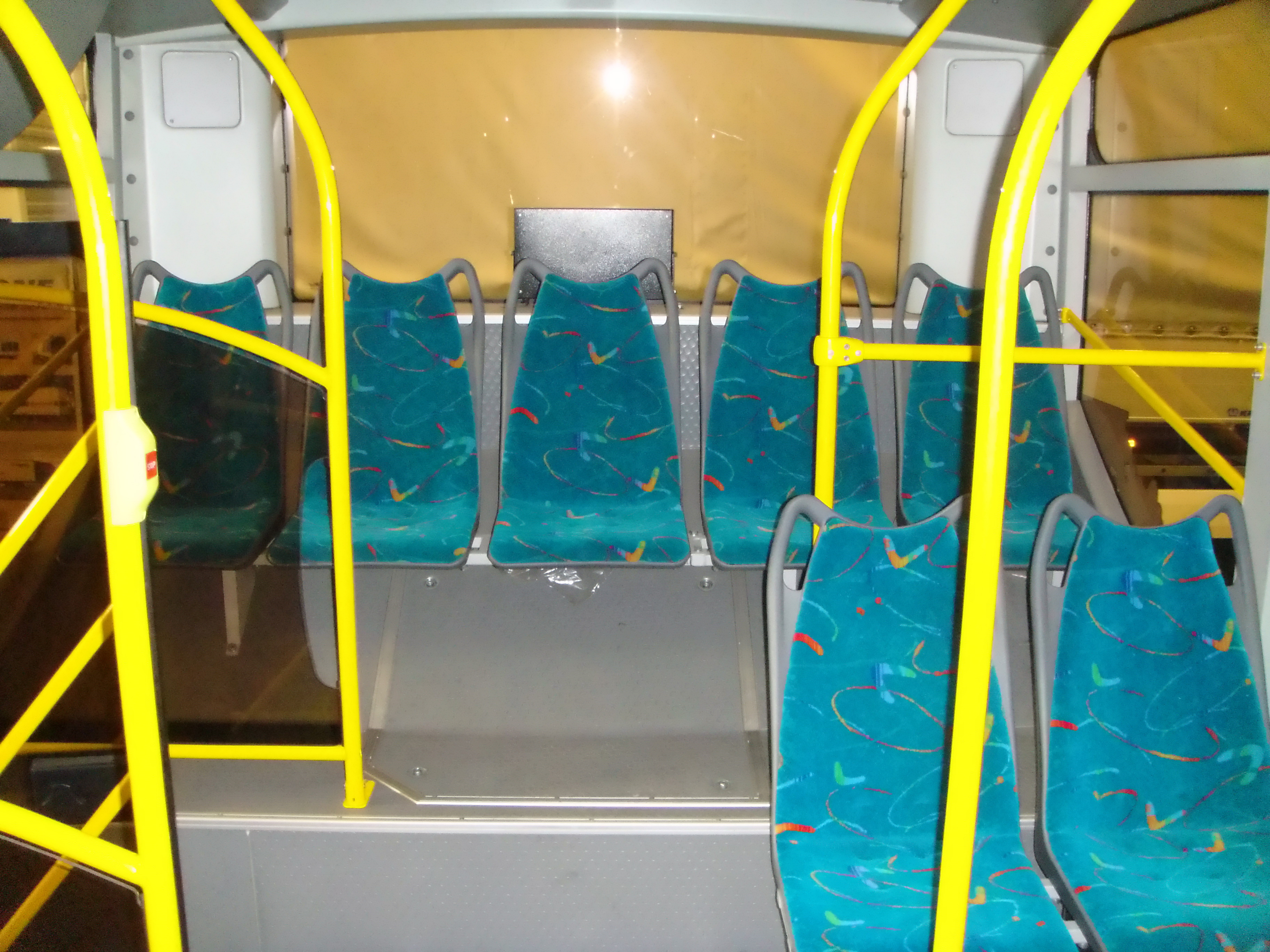 BAZ A11110 bus interior in Kiev, Ukraine. TIR 2010.